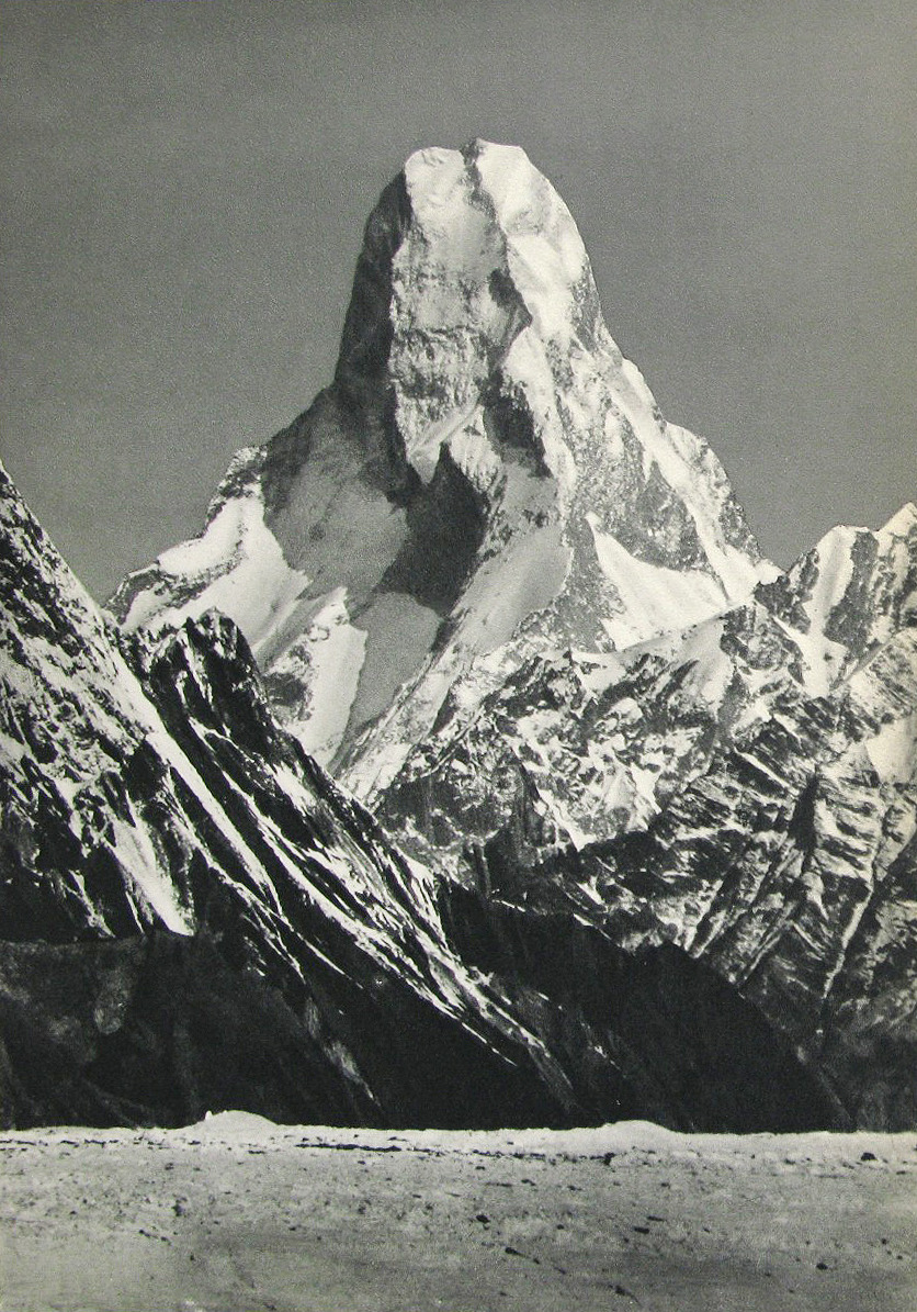 View from the western slopes of Baltoro Kangri towards Muztagh Tower. Distance is about 35 Km. (cf. G. O. Dyhrenfurth: Dämon Himalaya. Basel 1935 Abb. 38 and caption) Photograph by Vittorio Sella (1859 – 1943) during the Italian K2 expedition led by Luigi Amedeo, Duke of the Abruzzi in 1909.